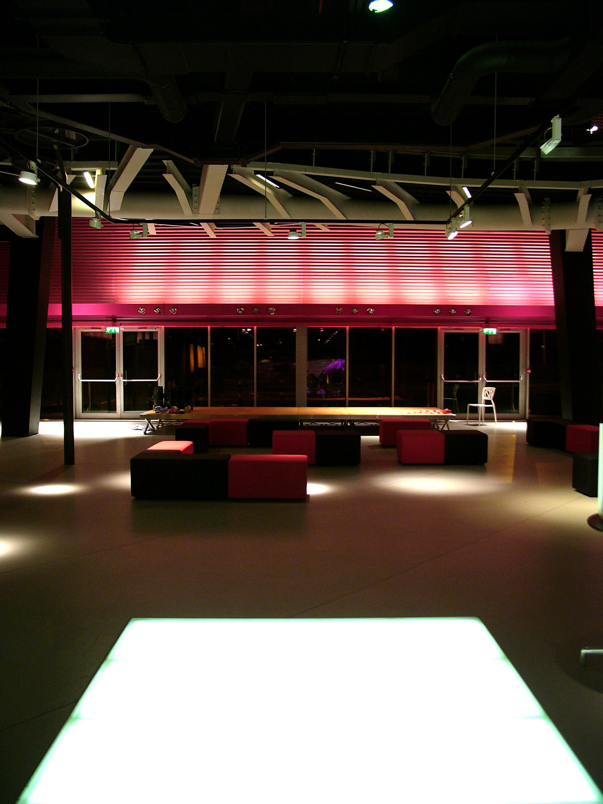 THE PUBLIC, West Bromwich, UK